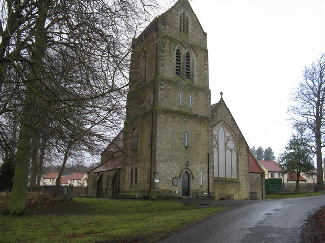 Glencorse Parish Church